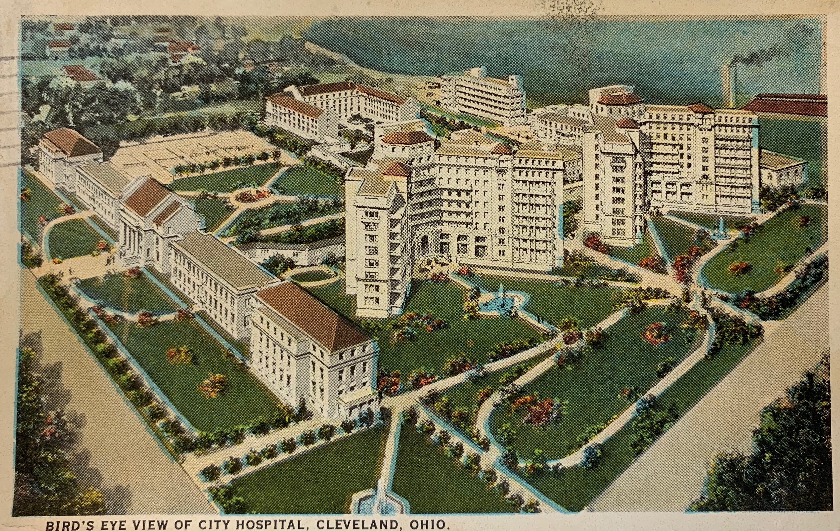 A circa-1920 postcard, from Braun Postcard Co., featuring an aerial view of Cleveland City Hospital.